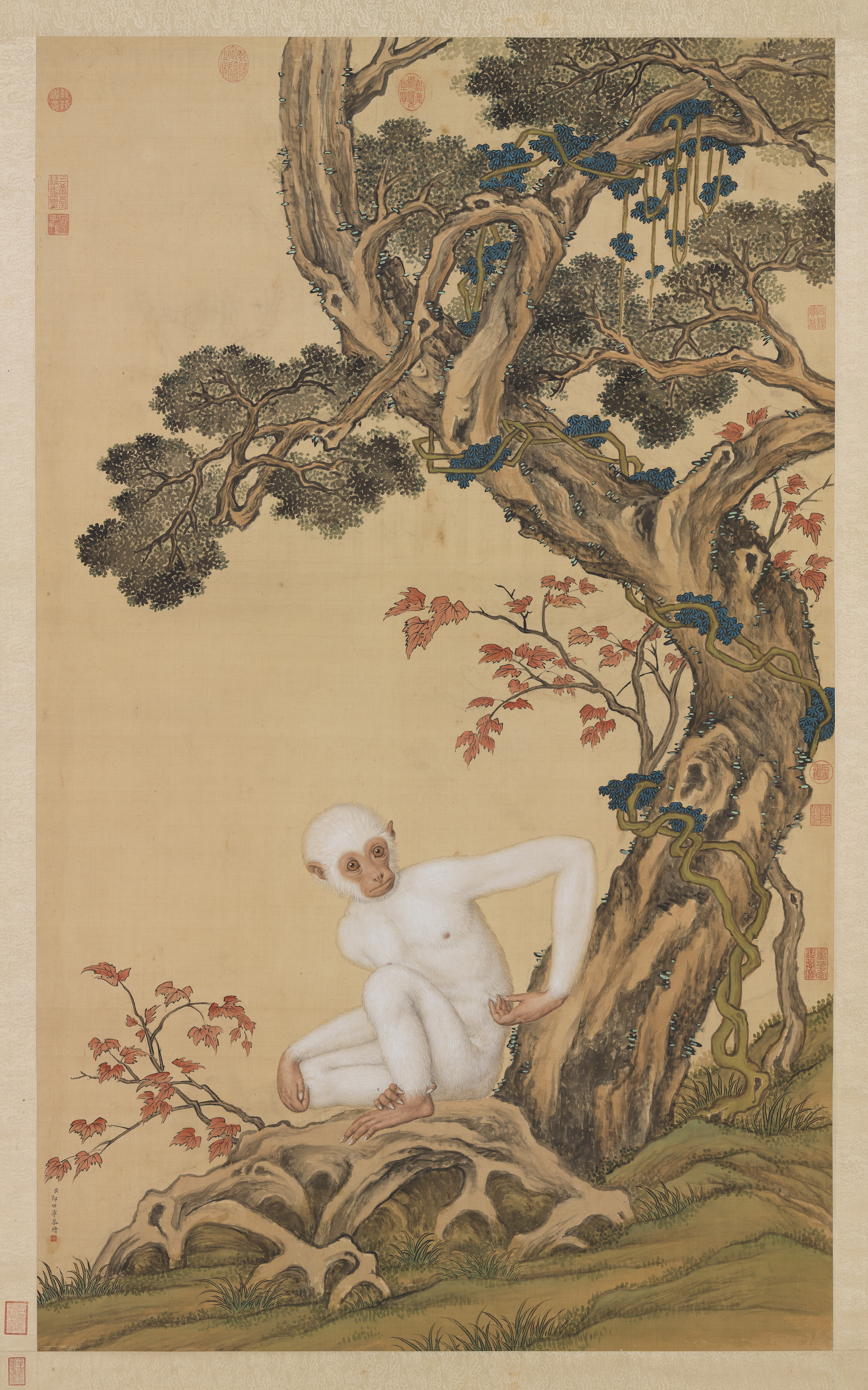 White Ape, painted by Giuseppe Castiglione